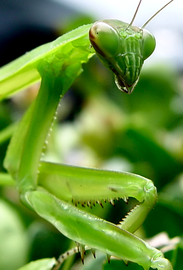 In front of our neighbors house this afternoon. Found 3 different praying mantis. Here's a photo of a different one.